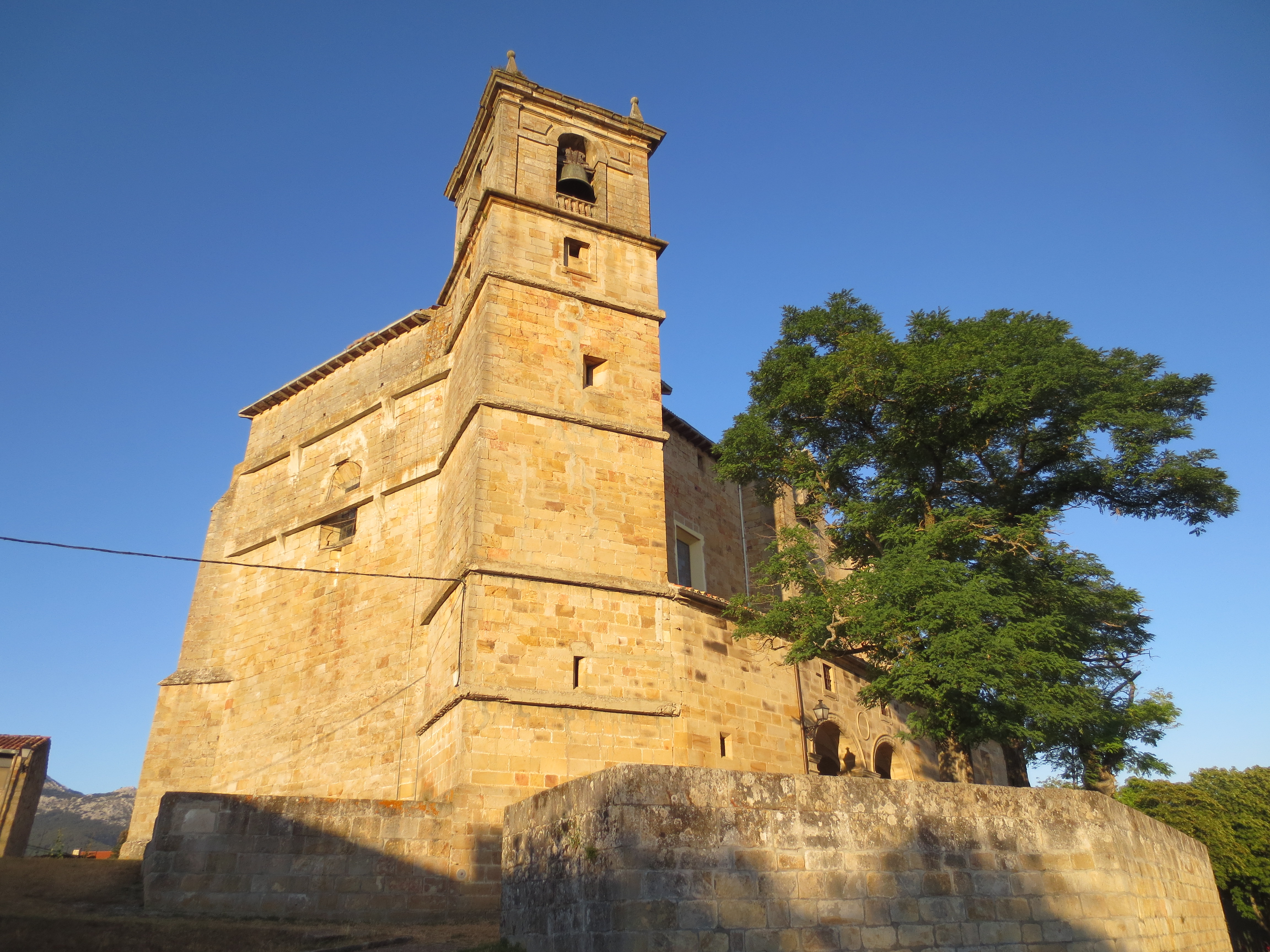 San Saturnino Church in Zalduondo, Álava, Basque Country